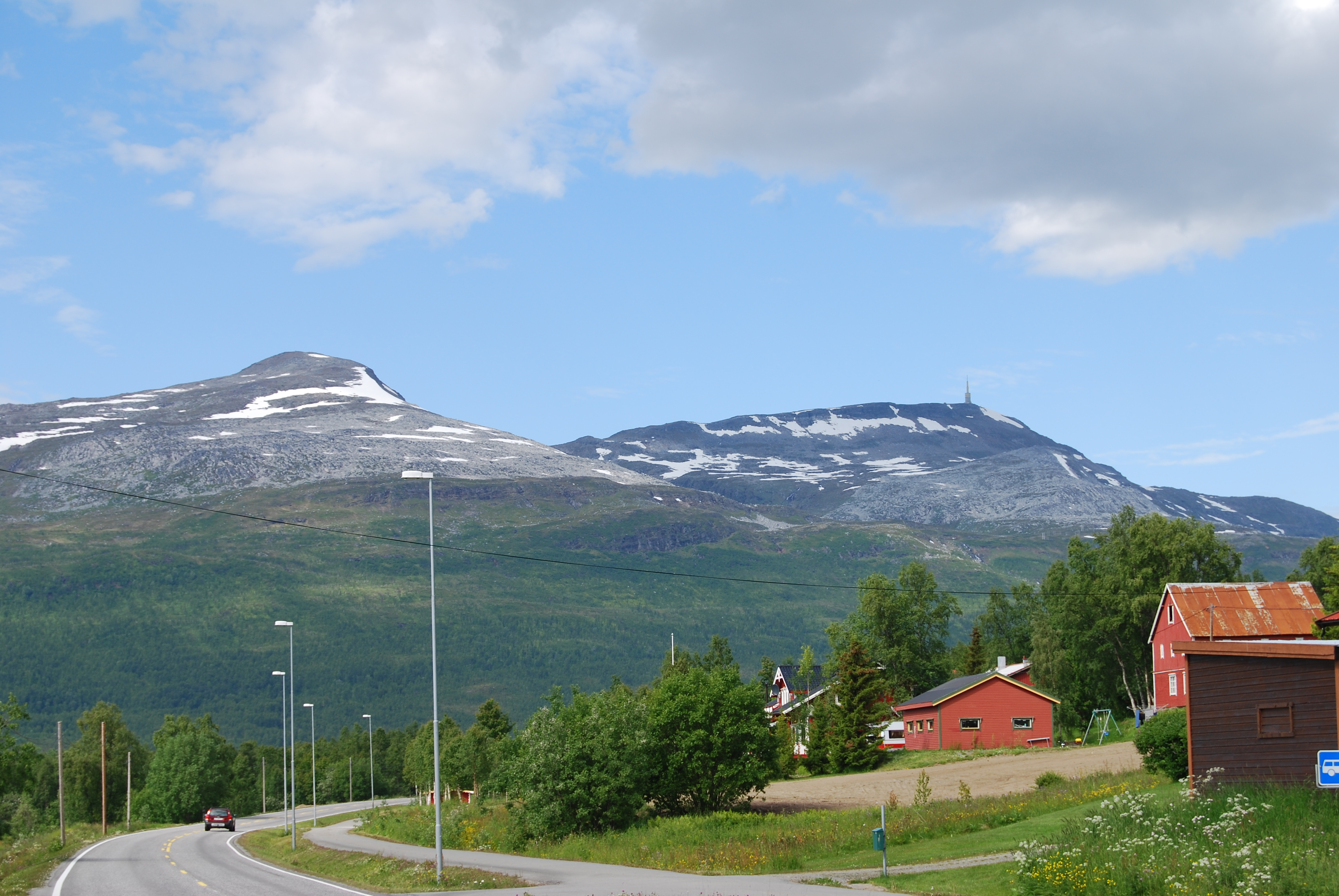 Kistefjellet hill with TV tower on the top, Lenvik, Norway.